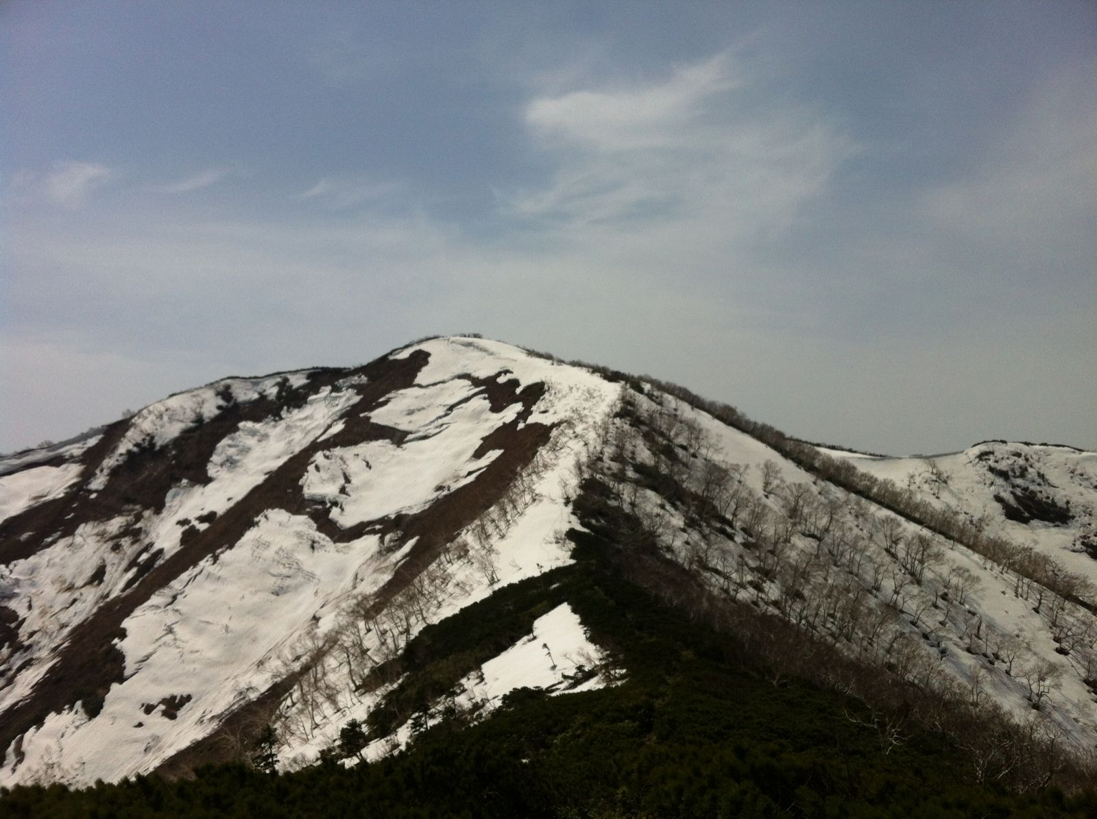 Uenshiridake's summit seen from the northeast ridge.